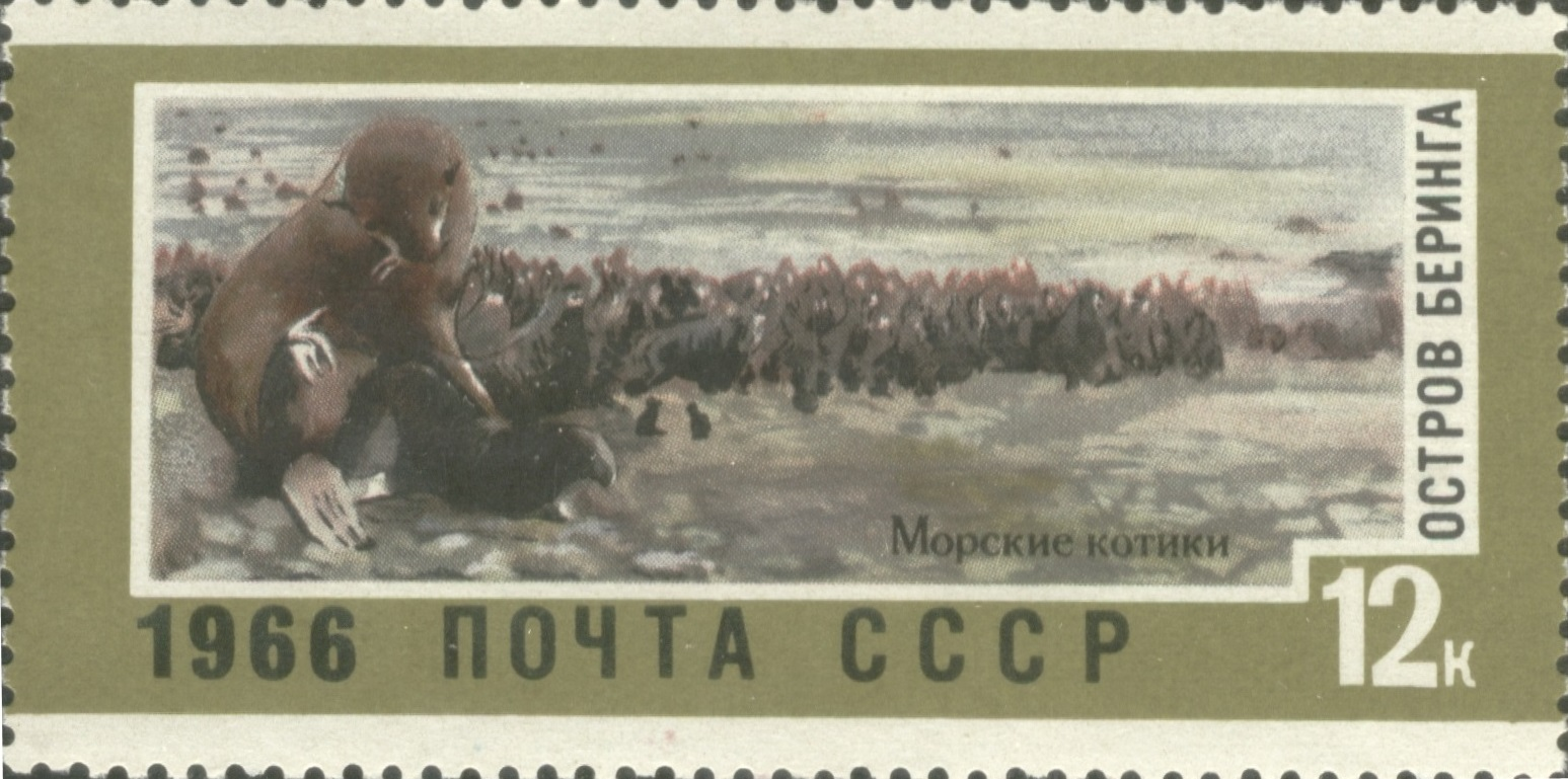 A USSR stamp